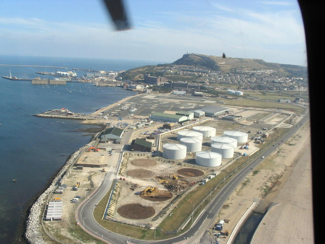 Former Royal Naval Air Station Portland This view, taken from the Portland Coastguard helicopter, shows the whole of the former Navy helicopter base at Portland. At the time the picture was taken (September 2003) much of the site was being cleared for the new National Sailing Academy, and a new hangar was planned for the Coastguard helicopter.